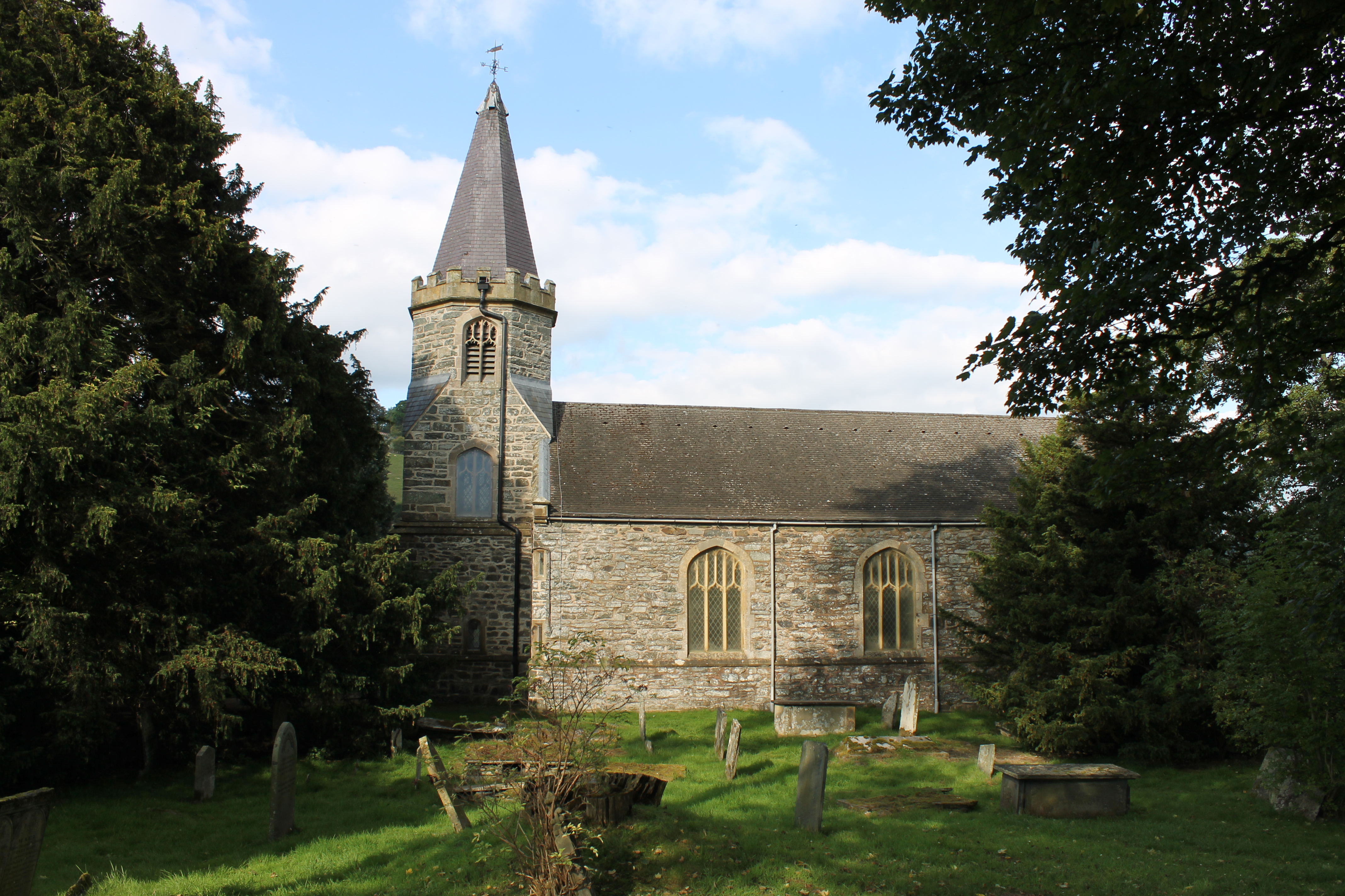 The Church of St Garmon, Llanarmon Dyffryn Ceiriog, Wrexham. Grade II registered building. Completely rebuilt in 1846 by Thomas Jones, architect. Restored in 1986. Originally a Celtic Church.